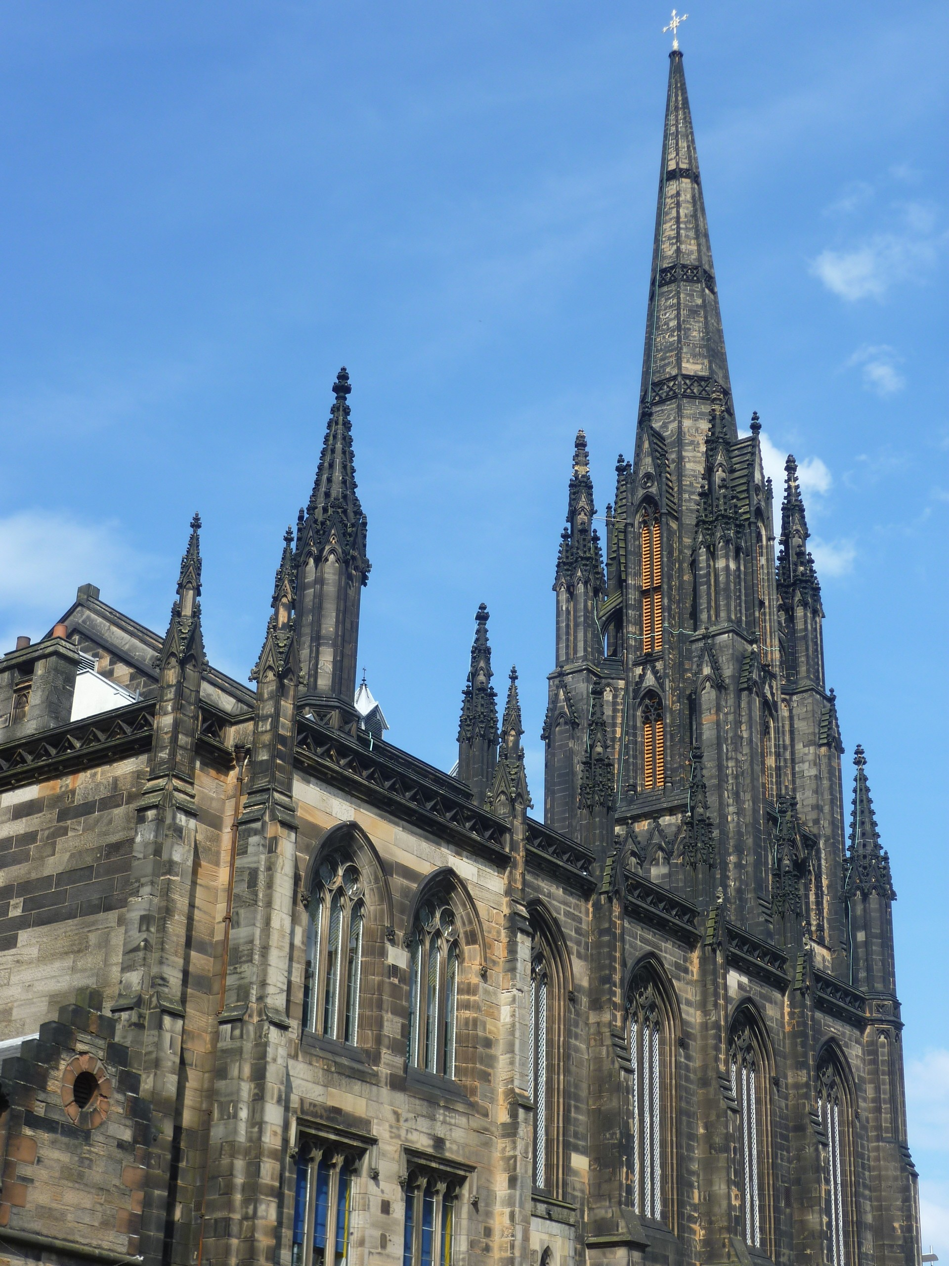 Former Tolbooth Church, Castlehill, Edinburgh